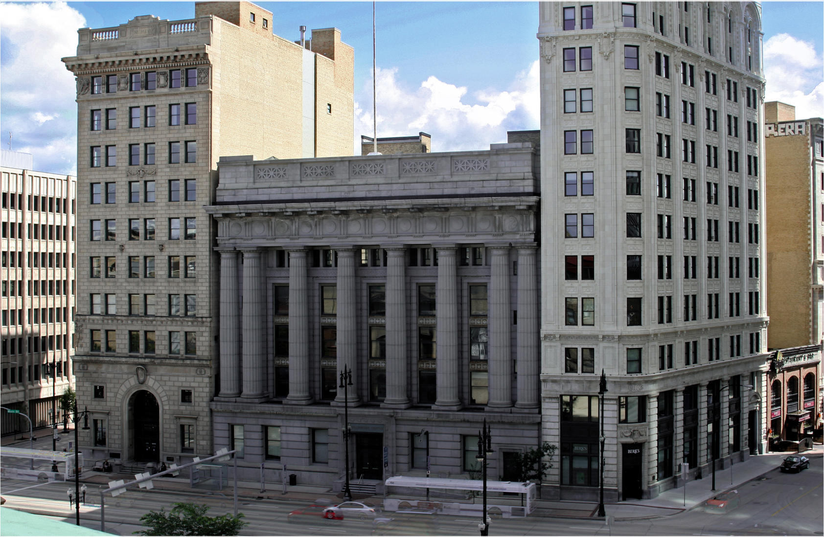 Bankers row, Main Street